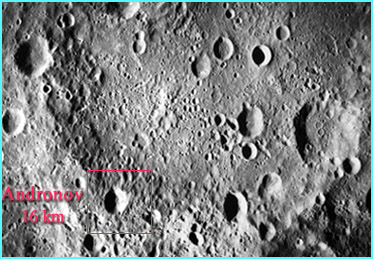 Crater Andronov (combination of Apollo images AS15-M-0468, AS15-M-0293, AS15-M-0296, AS15-M-0297)